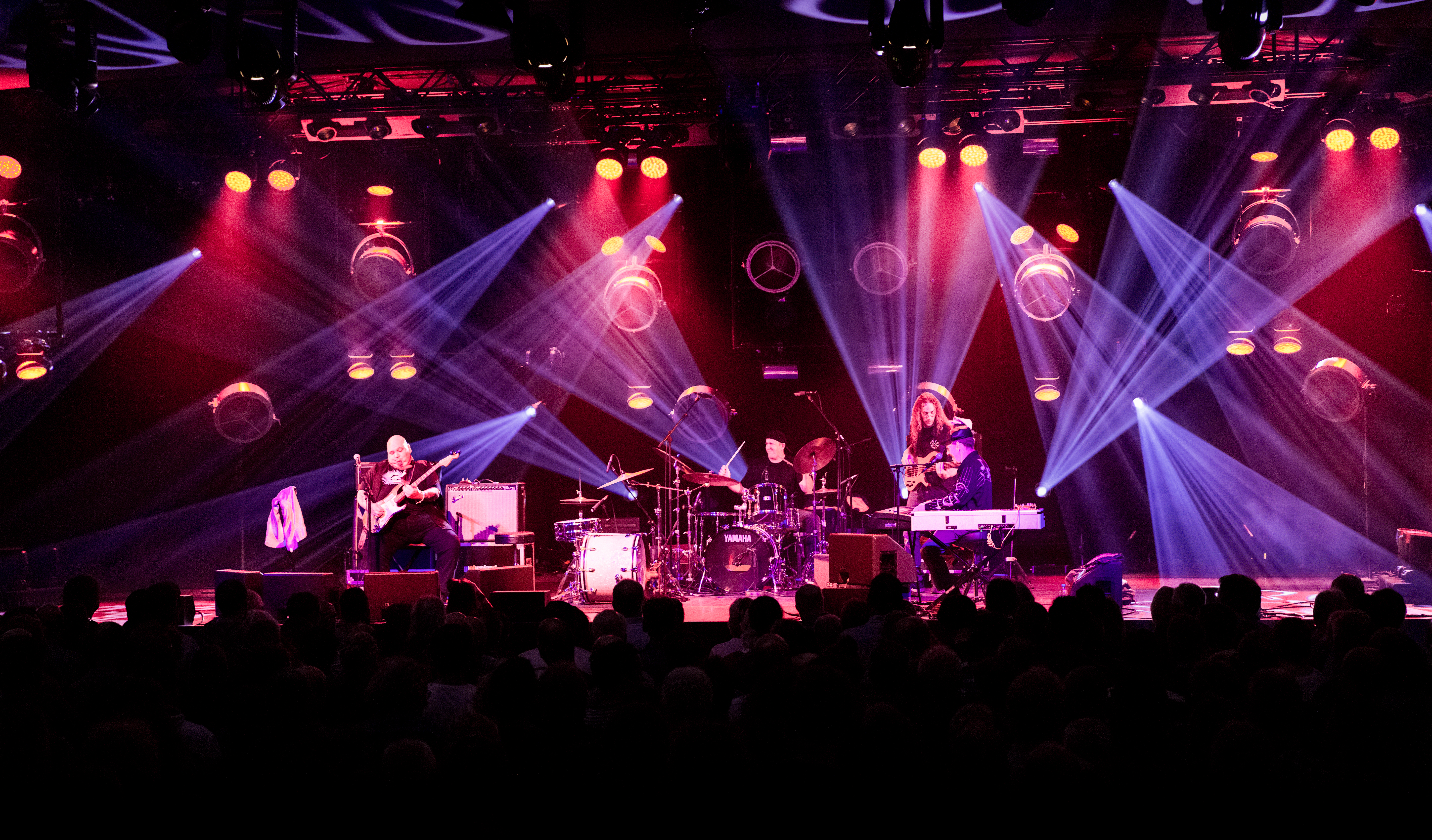 Popa Chubby - Leverkusener Jazztage 2016